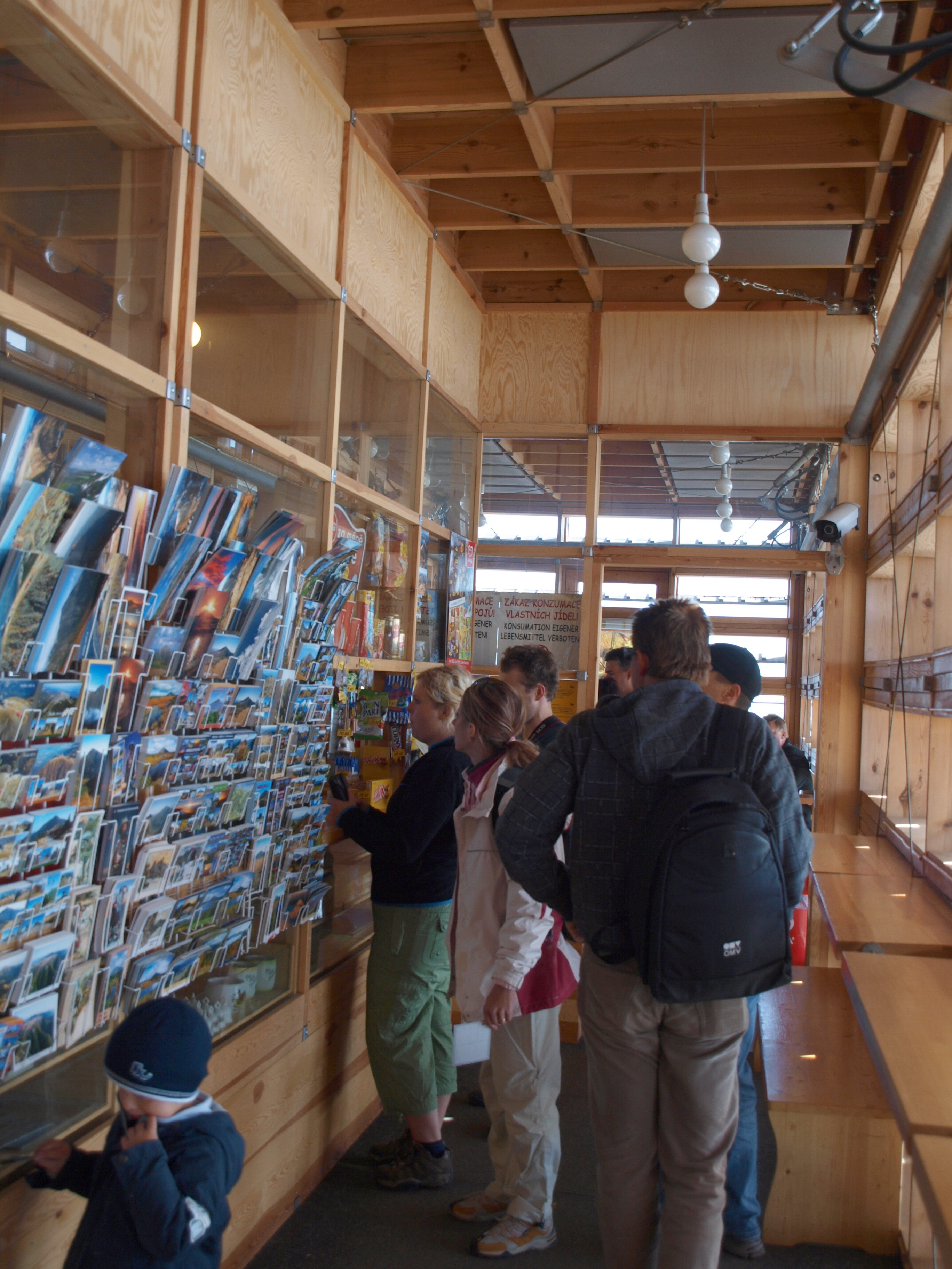 Interior of new Czech post office, Sněžka, Krkonoše